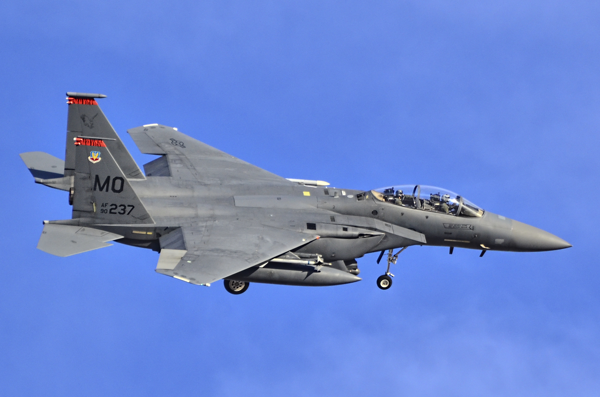 TDelCoro Red Flag 14 January 27, 2013